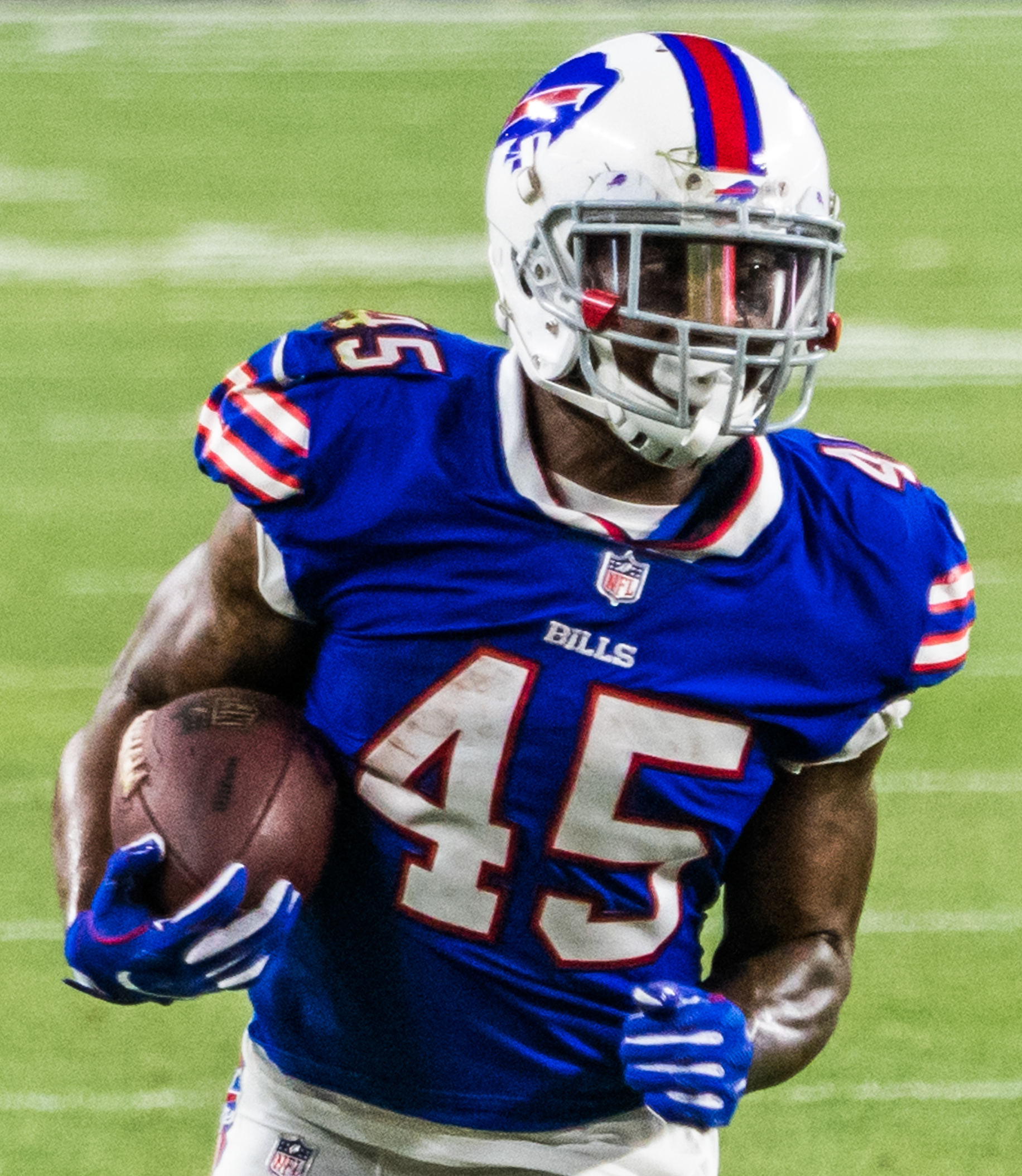 Cleveland Browns vs. Buffalo Bills